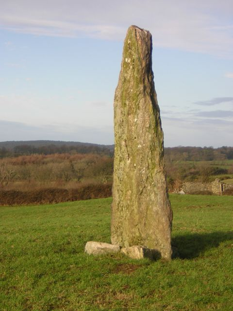 Maen Hir or Standing Stone, Nr. Menai Bridge. Another of the Maen Hir (Tall Stone) or Standing Stones to be found in the fields of Anglesey. This one at the rear of Pentraeth Automotive on the A 5025.